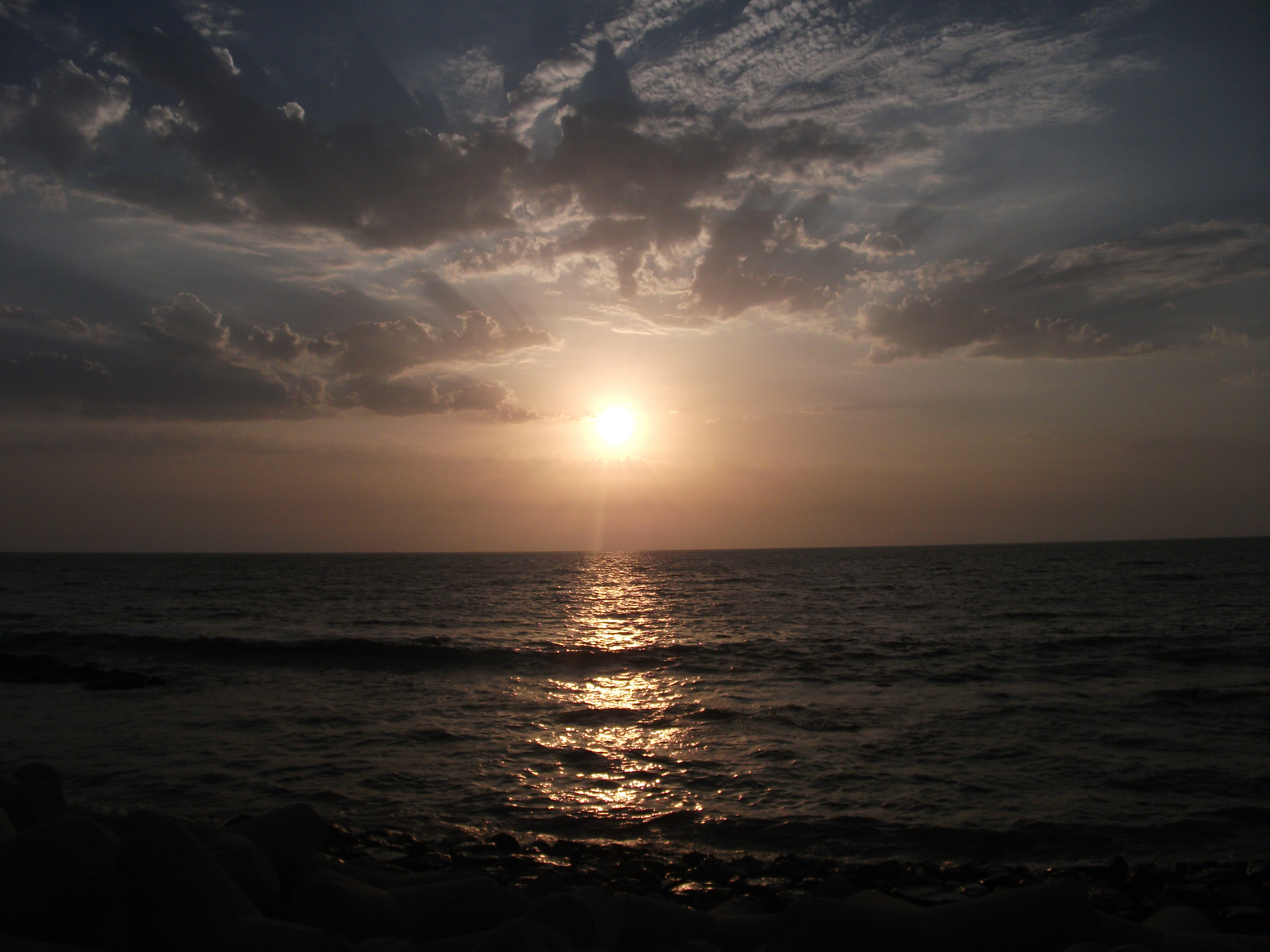 View of Arabian sea from worli sea face (mumbai)